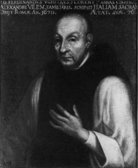 Ferdinando Ughelli (1595-1670) cistercense monk and church historian